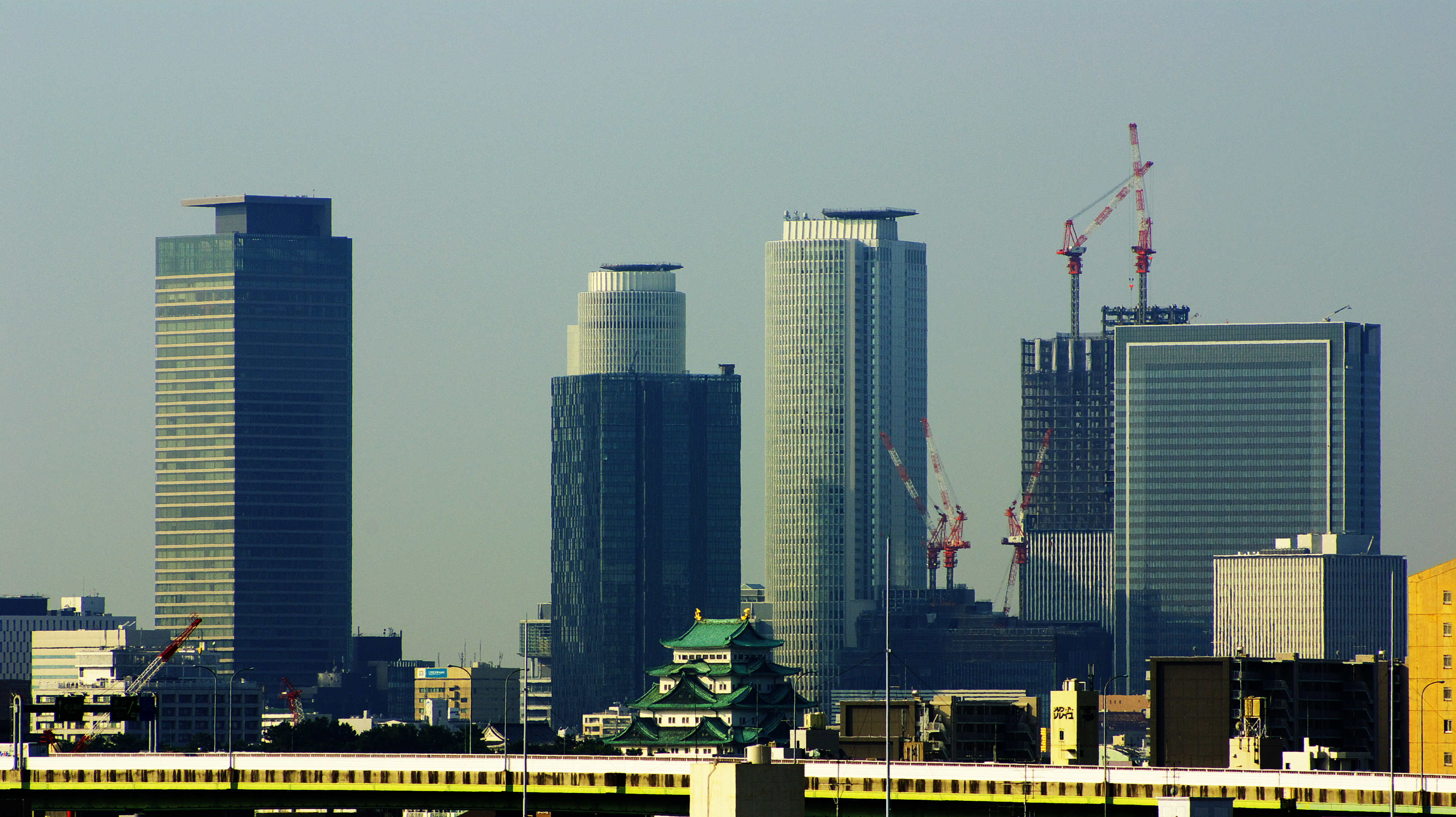 Nagoya Castle and Meieki district that the construction of skyscrapers go ahead through.